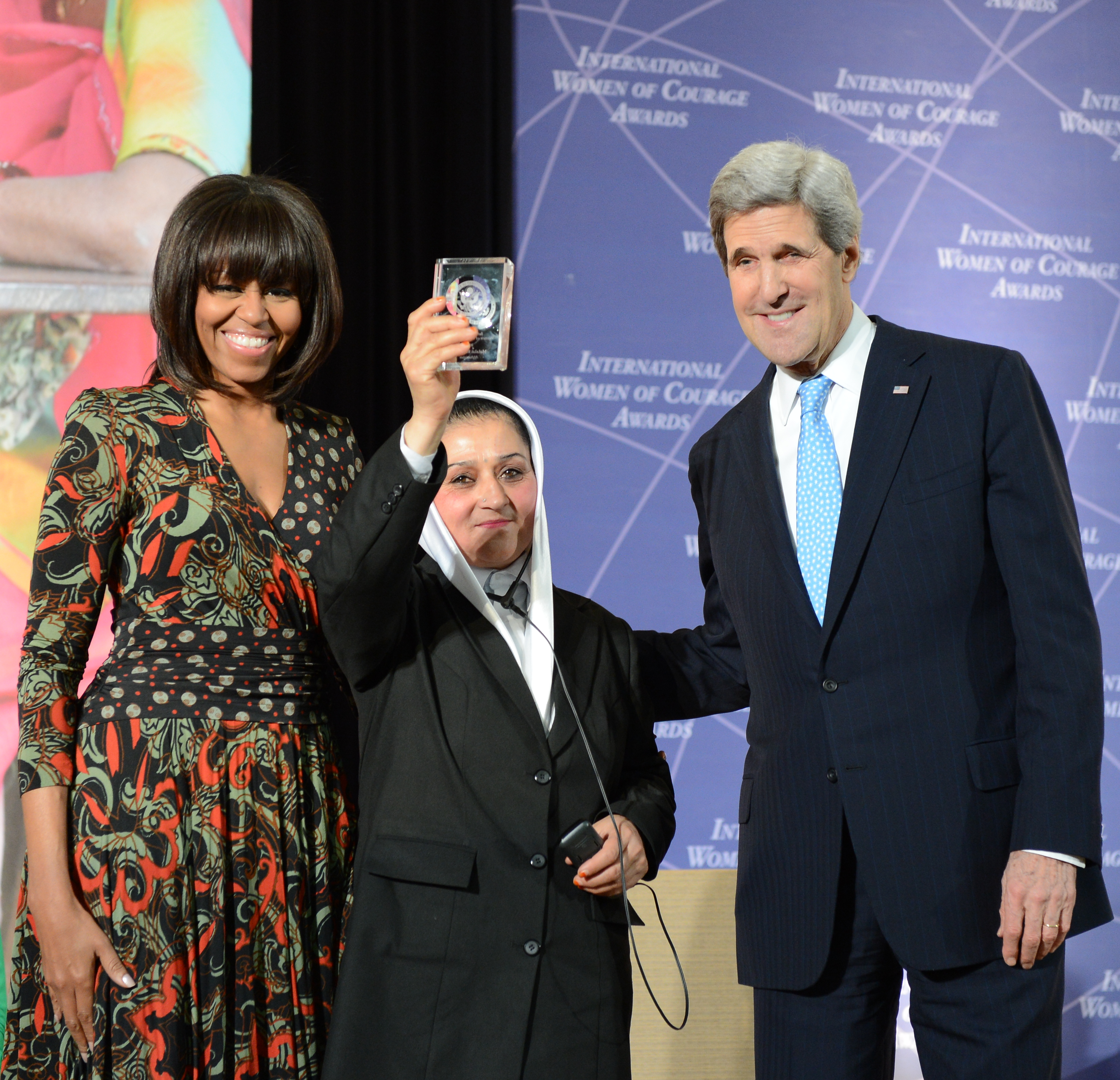 2013 International Women of Courage Awards Remarks John Kerry Secretary of State Dean Acheson Auditorium Washington, DC March 8, 2013